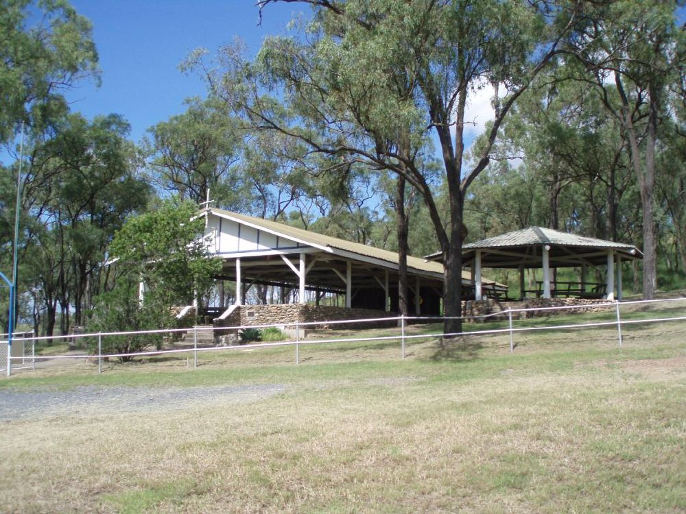 St Christophers Chapel (2009)